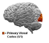 Side profile of brain, focusing on the location of the Primary Visual Cortex(V1).